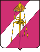 Sergievskoe (Krasnodar krai), coat of arms